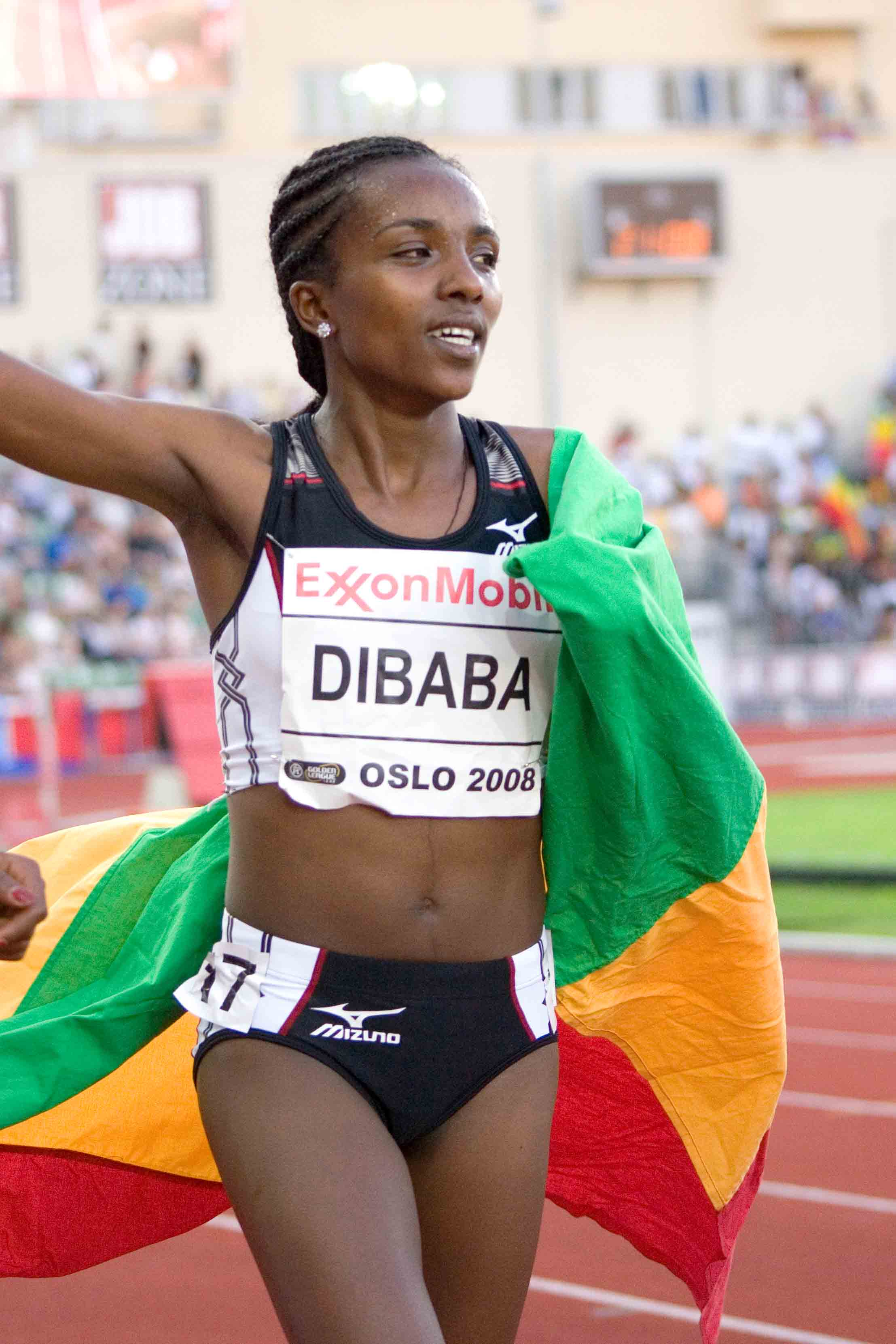 5000m women: Tirunesh Dibaba of Ethiopia sets new world record time 14:11:15